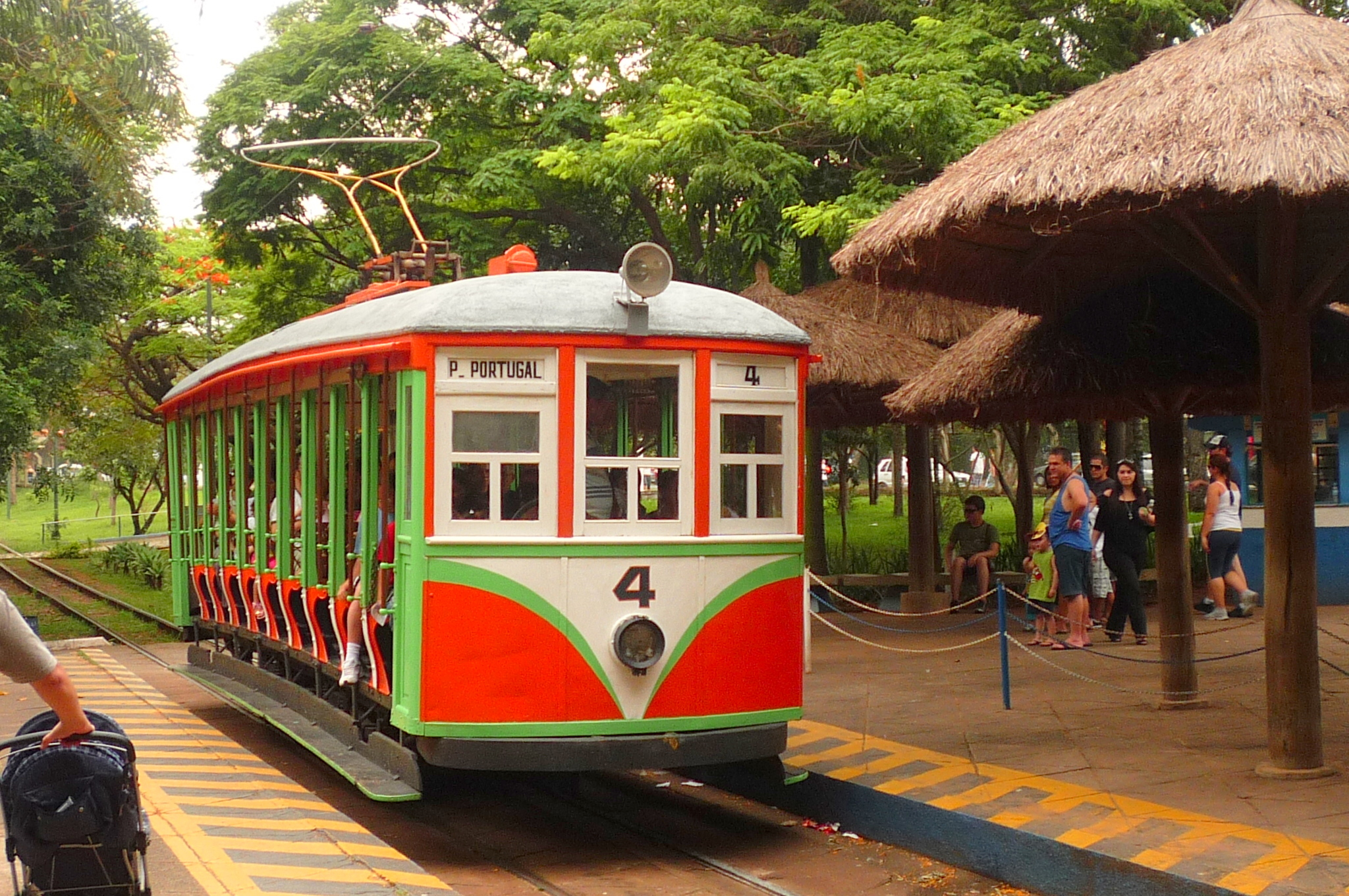 Car 4 on the historic tramway in Parque Portugal (originally Parque Taquaral or Lagoa do Taquaral, until 1980) in Campinas, Brazil. The line opened in 1972. Car 4 originally operated on Campinas's city tramway, which closed in 1968.